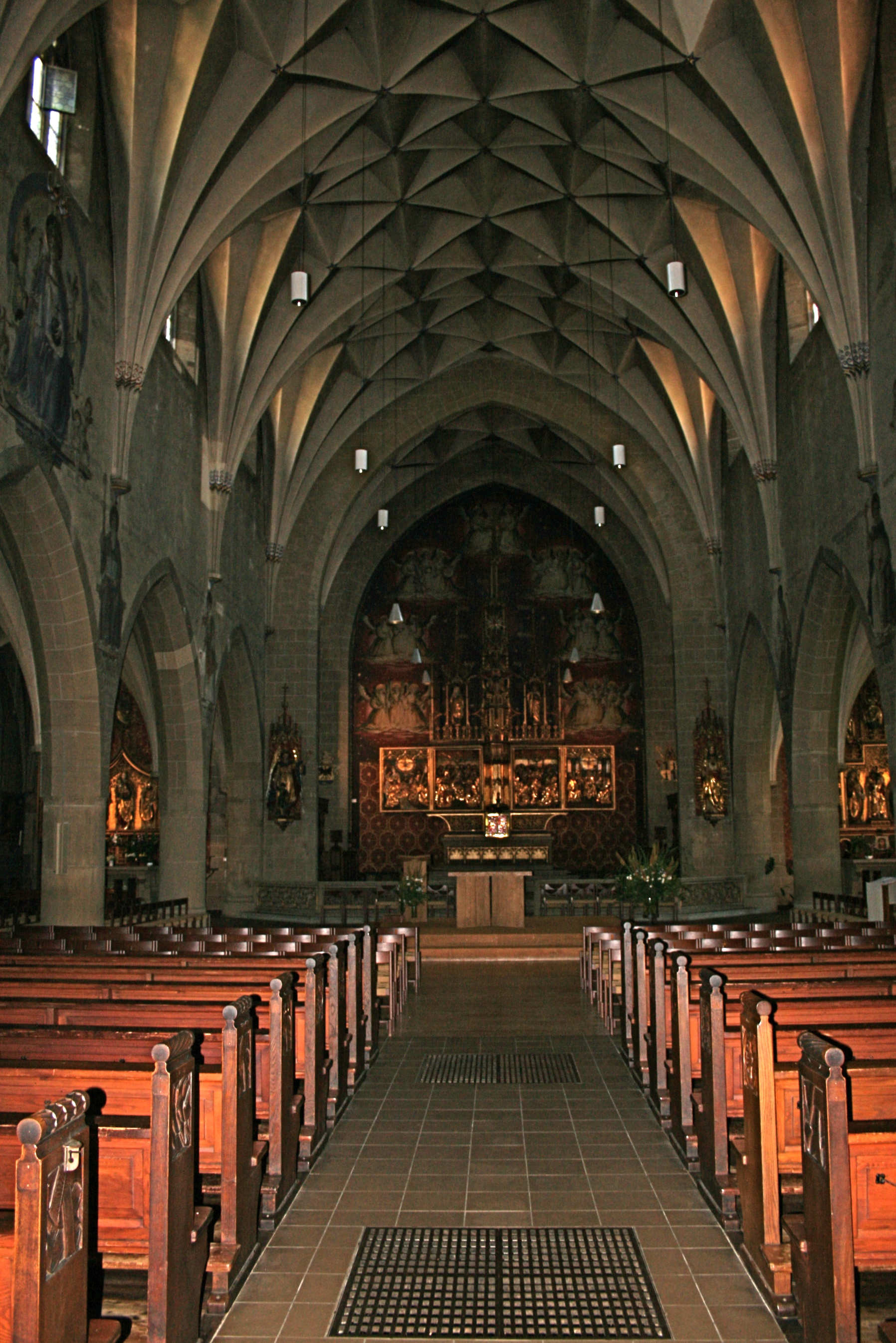 Indoor frontside view of the Church of the Holy Spirit in Basel, Switzerland.